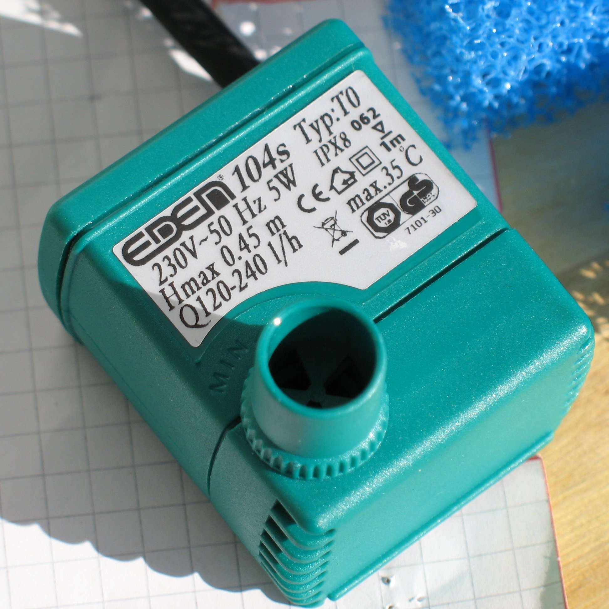 Small submersible pump for fish tank or similar use.